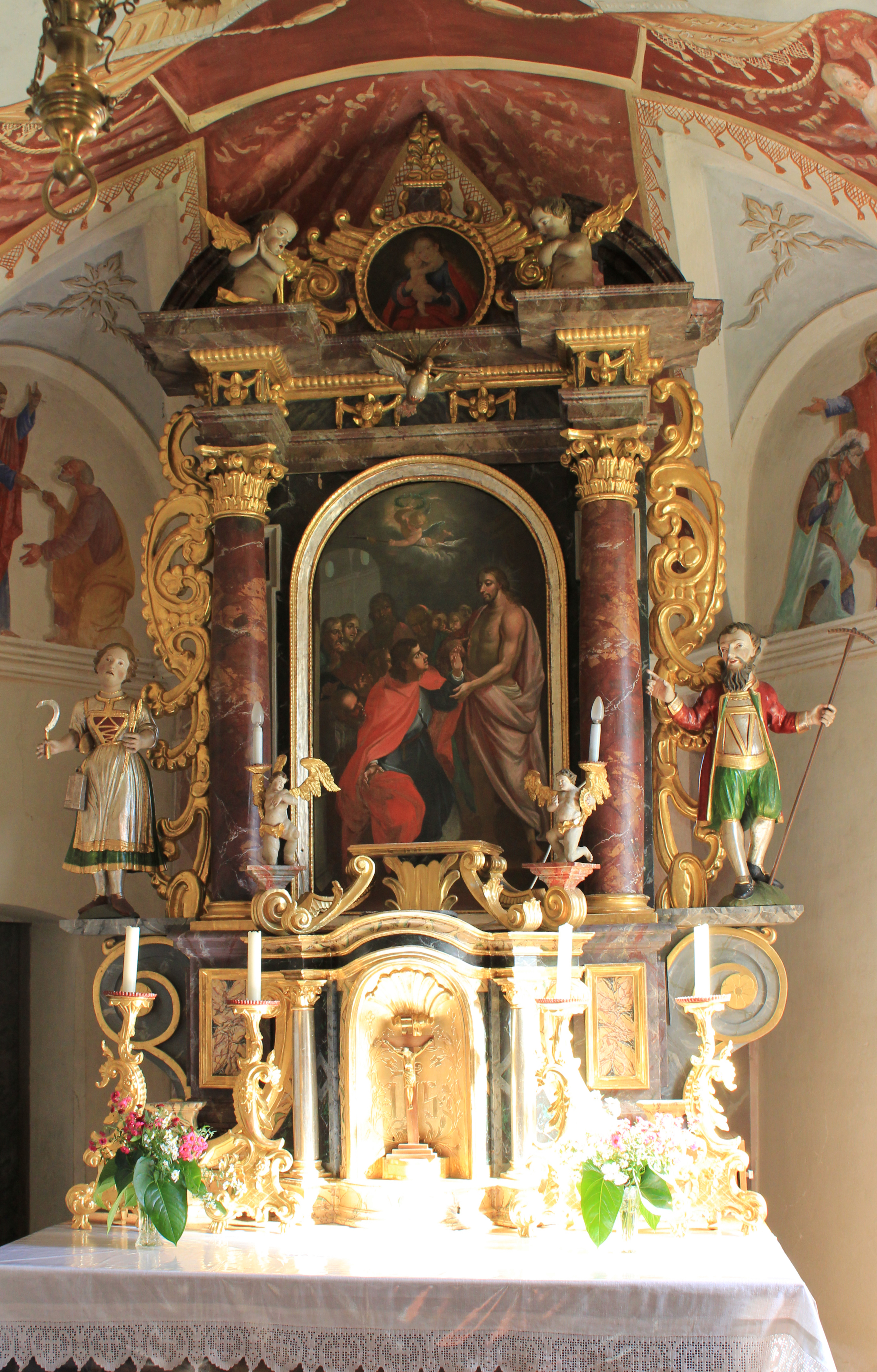 Church of Waidegg in the community of Kirchbach